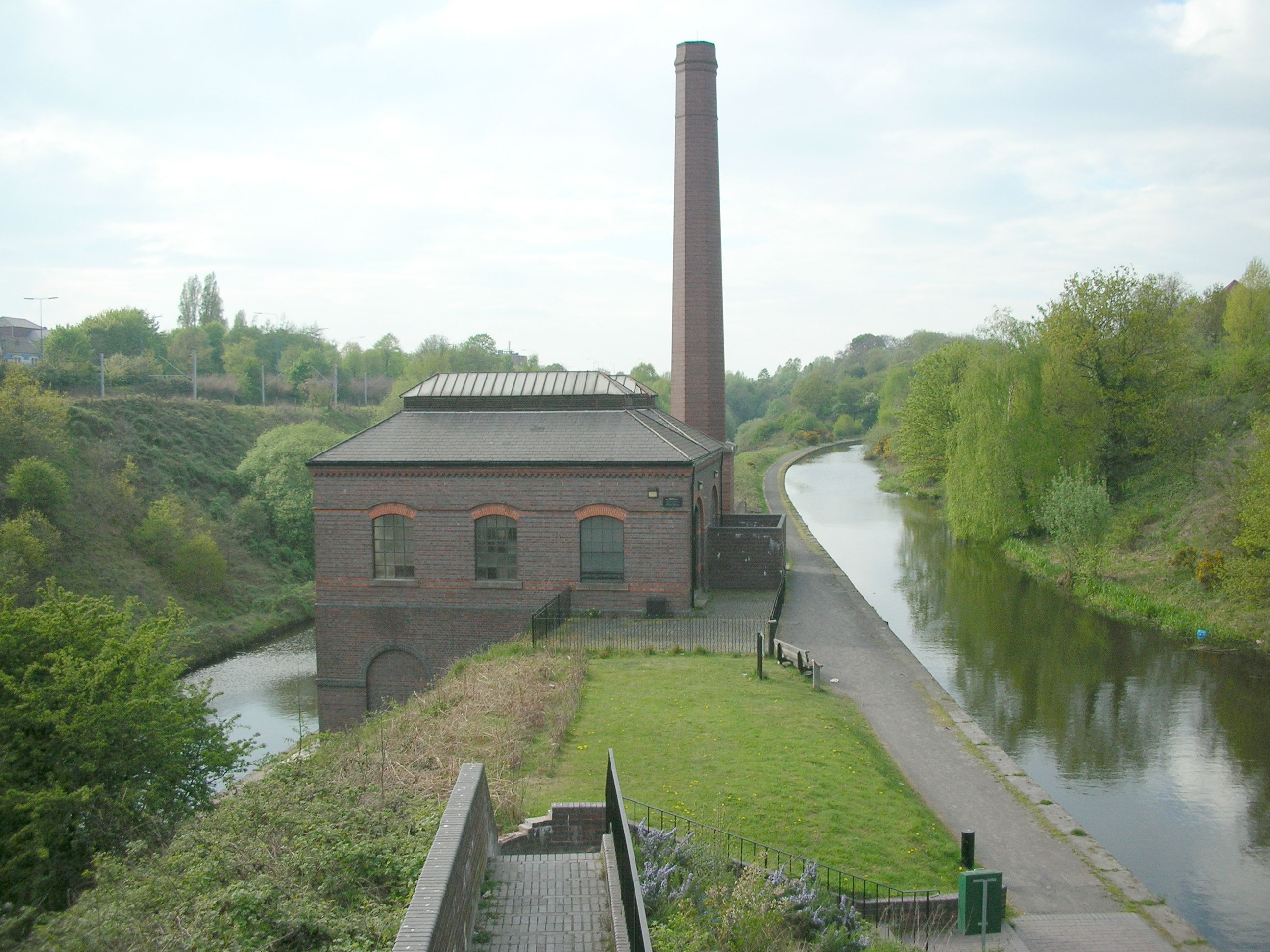 Smethwick New Pumping Station, Brasshouse Lane, Smethwick, West Midlands. The building is between the old and new lines of the BCN Main Line near Brasshouse Lane bridge, Smethwick, West Midlands, England. The engine pumped water from the lower canal (Birmingham Level) to the upper in order to supply the locks at the Smethwick Summit (Wolverhampton Level) of the older canal, replacing the original pumping engine on the corner of Rolfe Street and Bridge Street. This gamma corrected version of File:New Smethwick Pumping Station.jpg by Andy Mabbett, 3 June 2007.